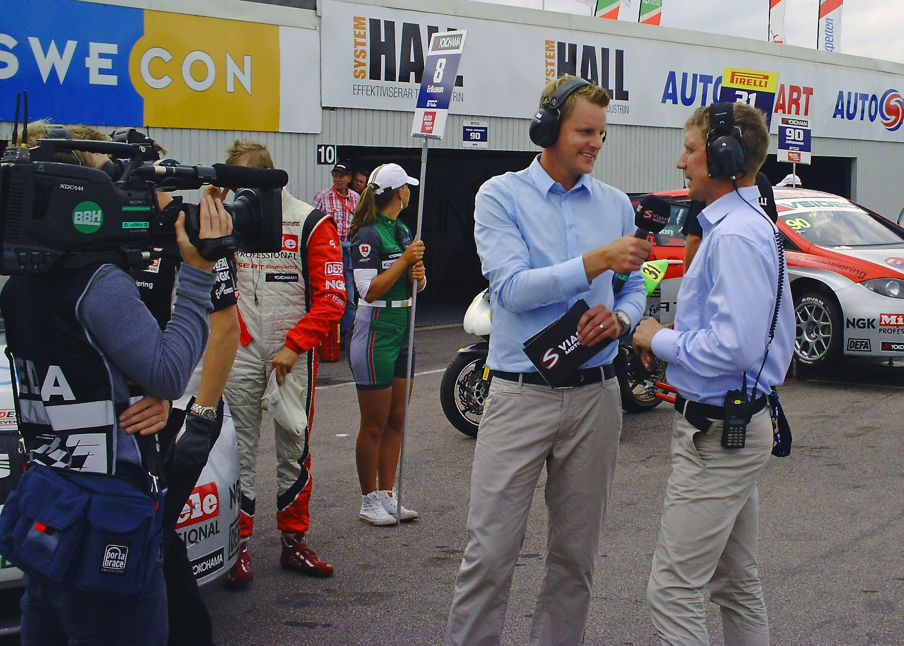 The former floorball player and Viasat Motor reporter, Niklas Jihde, and the racing driver and television commentator, Carl "Calle" Rosenblad, at Falkenbergs Motorbana in 2011.